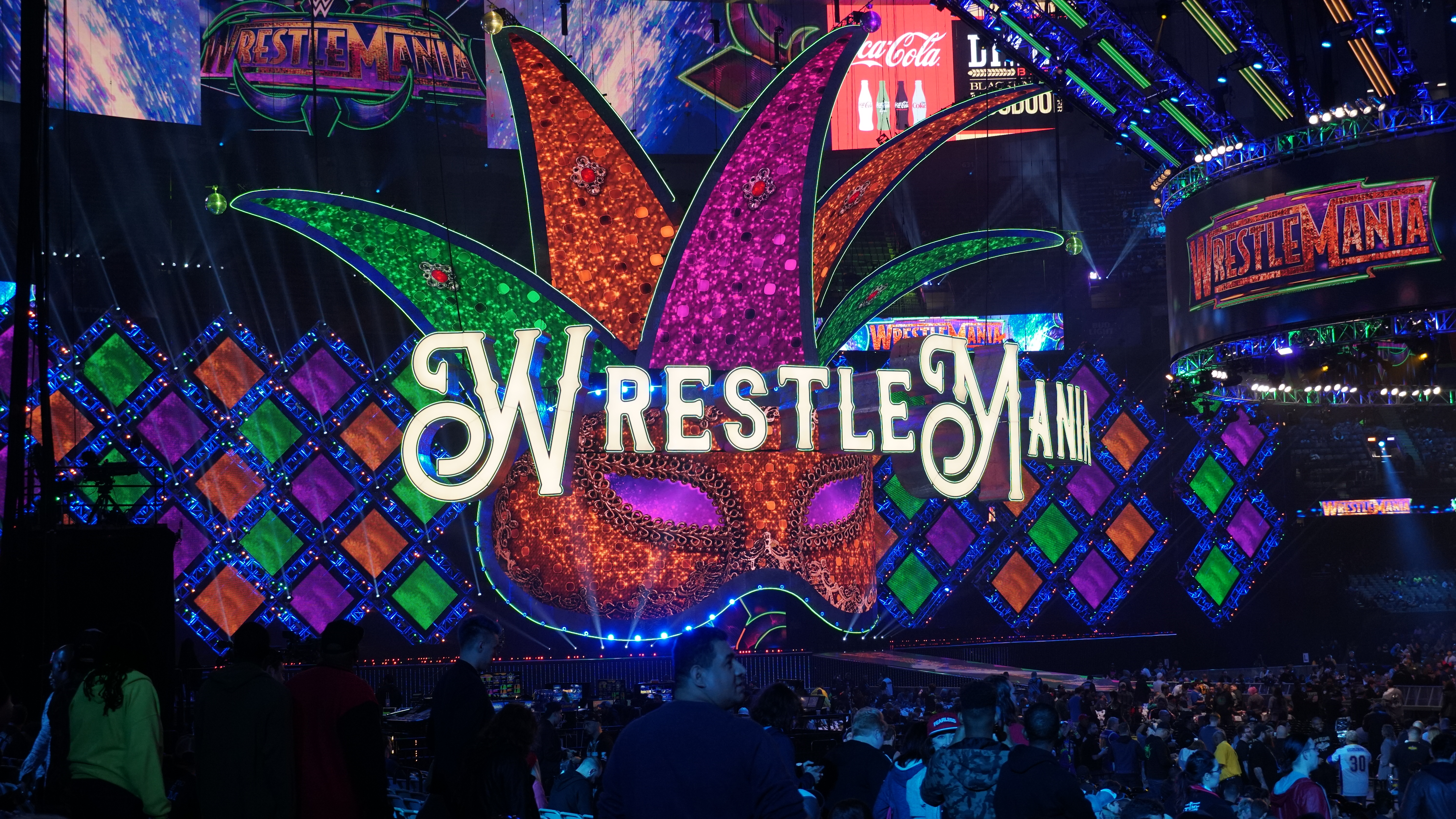 WrestleMania 34 set